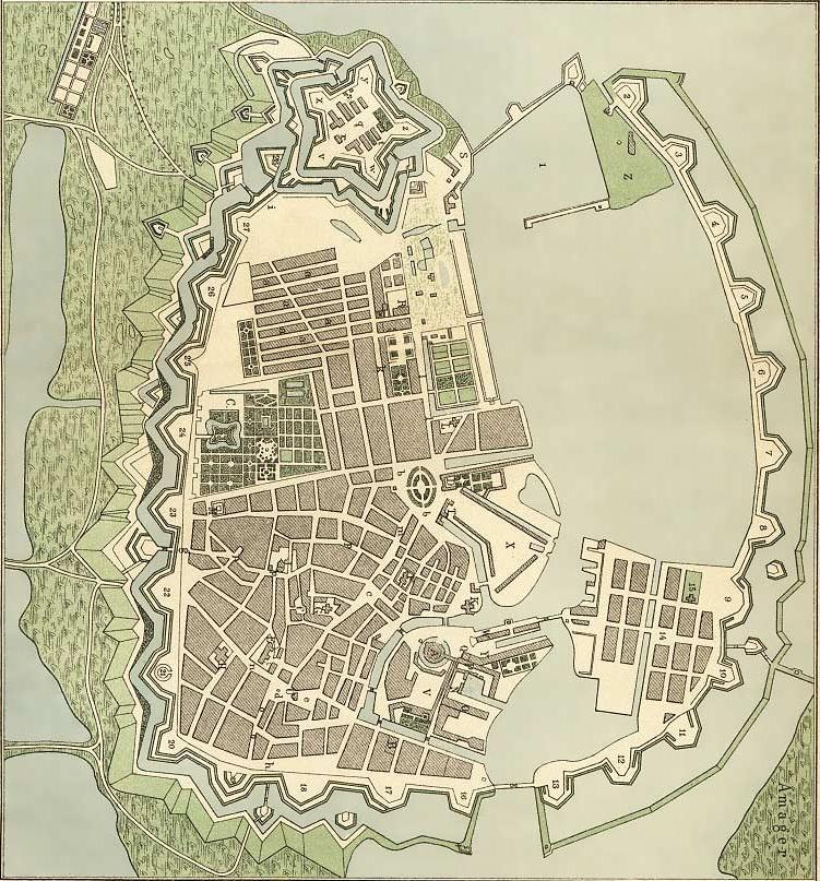 ==Rotated map so north is at top.